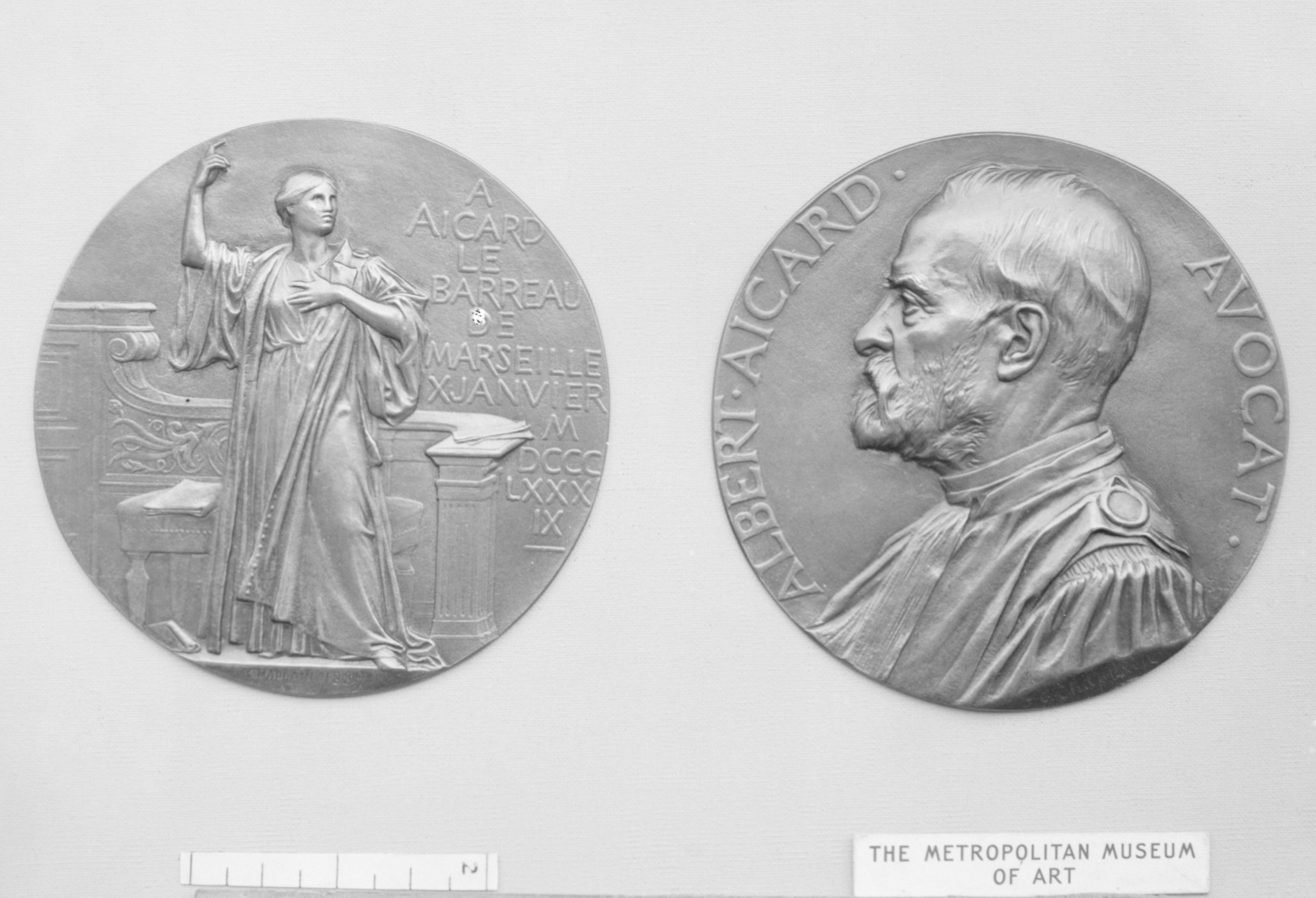 French; Medal; Medals and Plaquettes